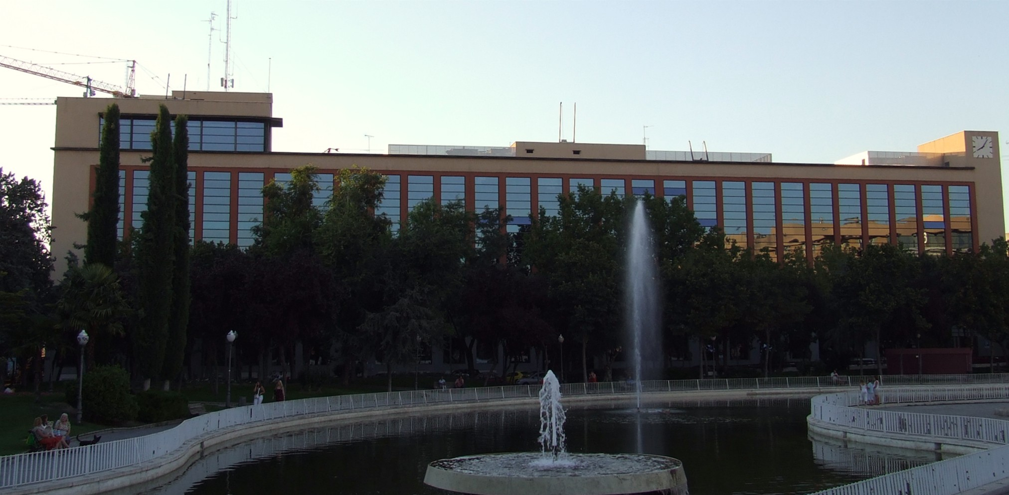 Móstoles is an autonomous community of the city Madrid in Spain.